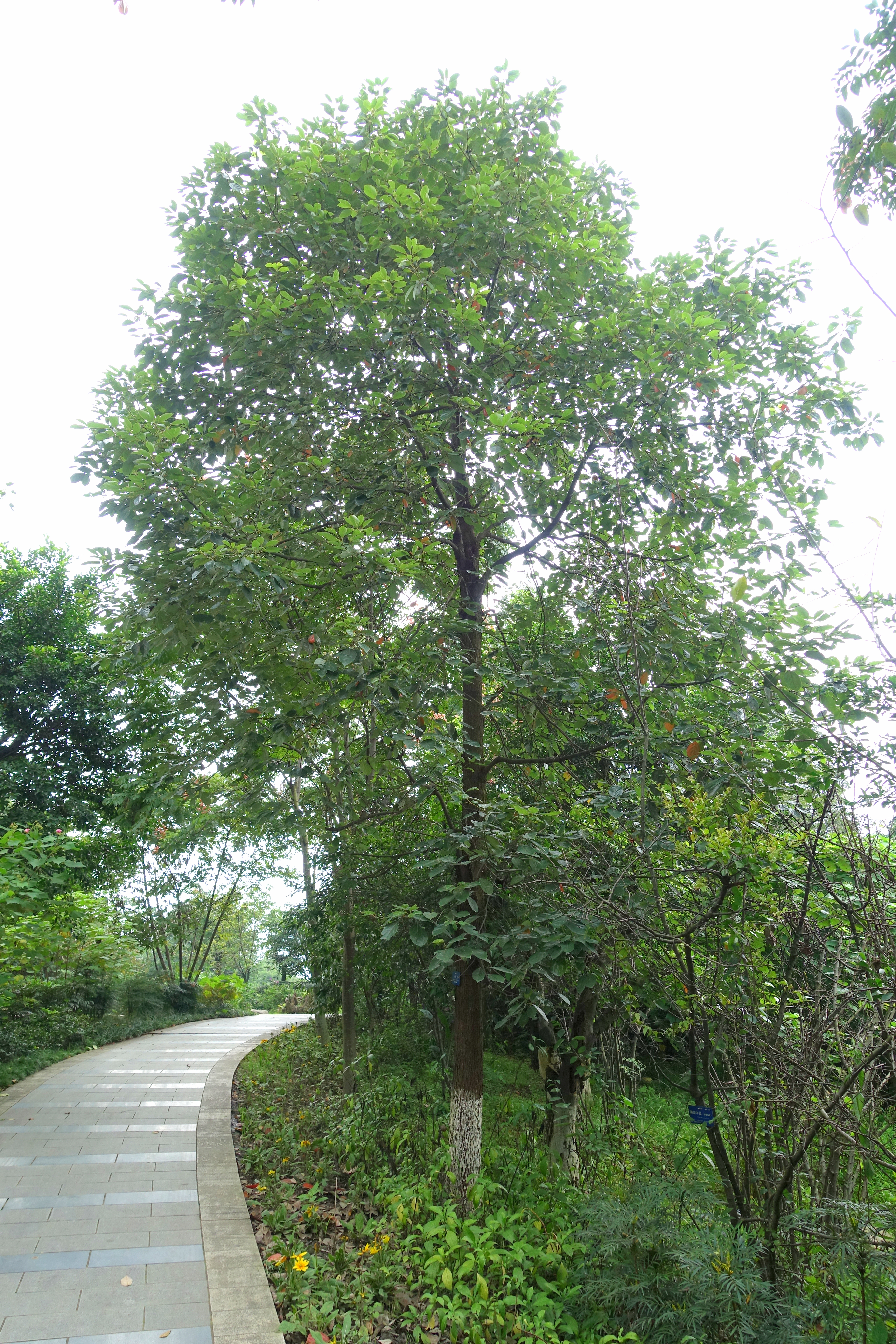 Botanical specimen in the Chengdu Botanical Garden - Chengdu, China.